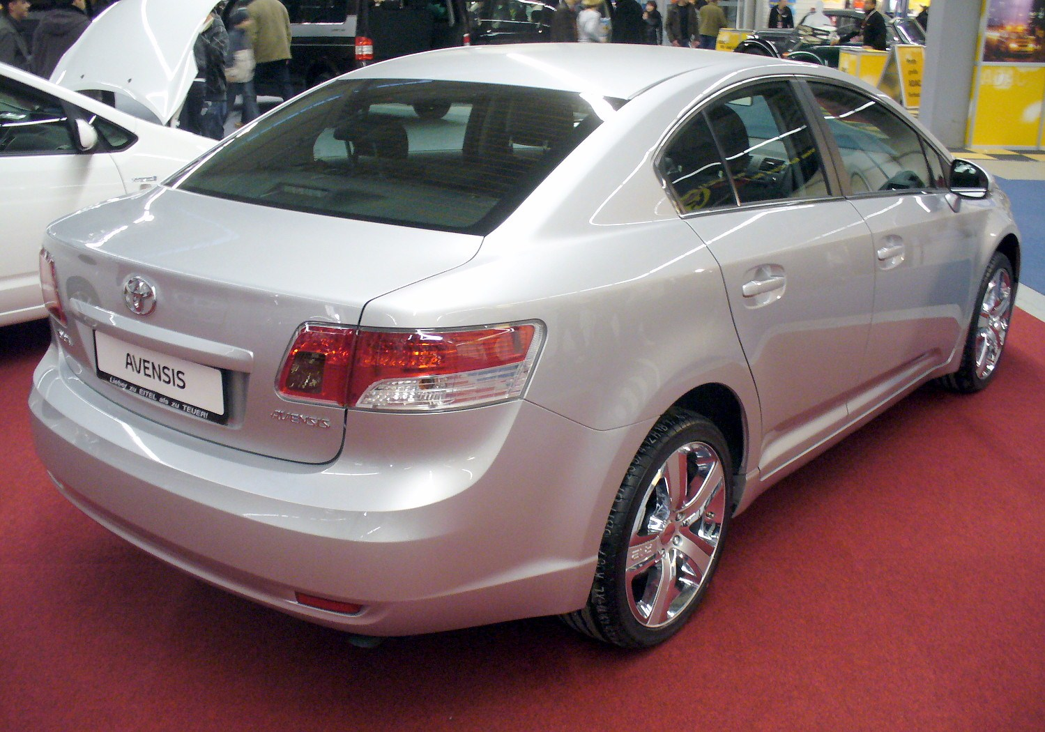 Toyota Avensis III